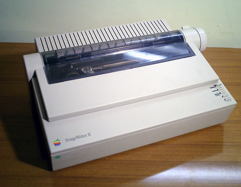 Imagewriter ii